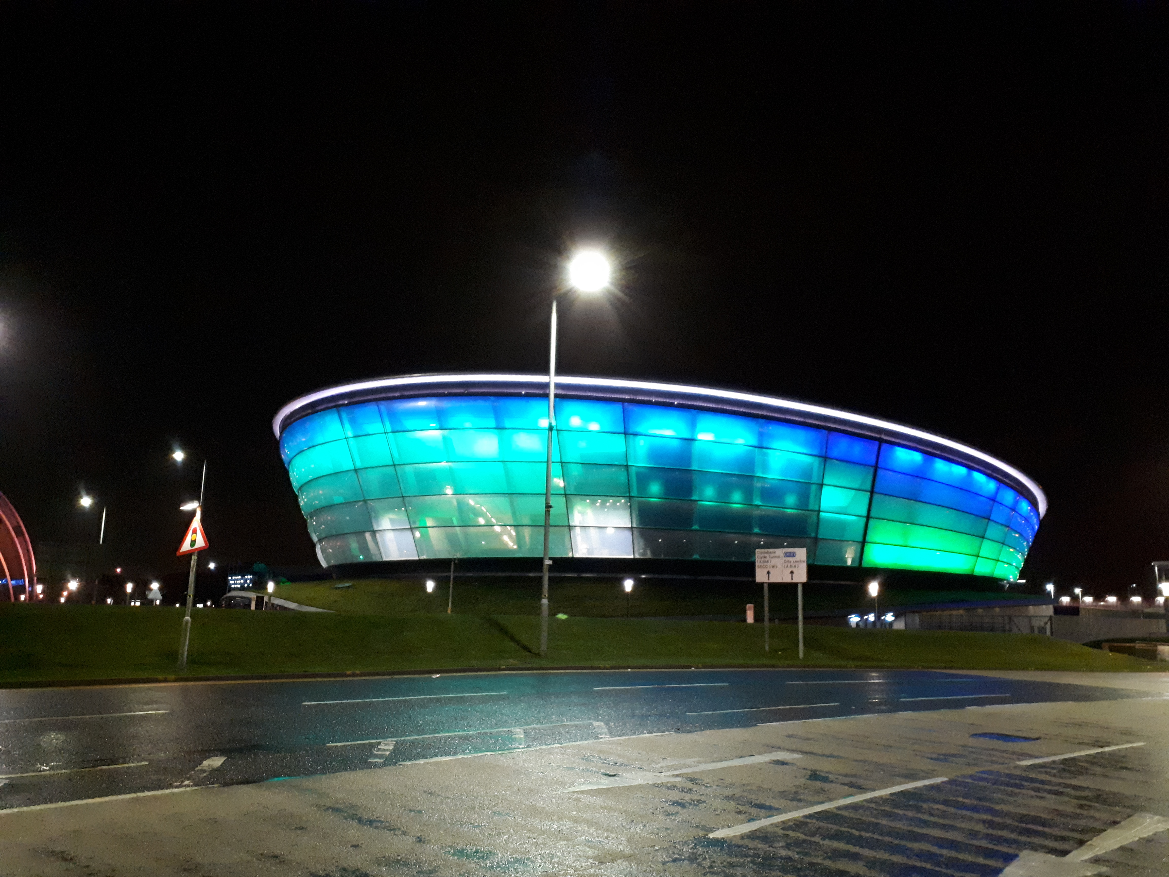 The SSE Hydro in Glasgow